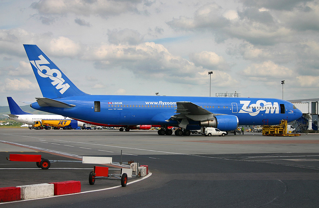 This image was taken by Martin J.Galloway. Donated from the British Photo Encyclopedia Dotonegroup : talk. Zoom Airlines Boeing 767-300 version 328ER, registration number C-GZUM, positioned at the International departure gate, Glasgow International Airport. July 2006.